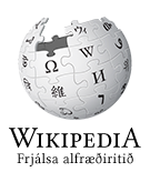 Wikipedia logo 2.0